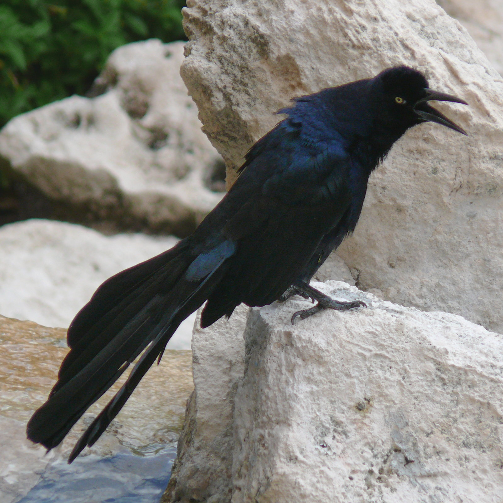 A Great-tailed Grackle (Quiscalus mexicanus) perched on a rock, making the loud, abrasive call for which these birds are notorious.Photo taken with a Panasonic Lumix DMC-FZ50 on the island of Cozumel in Quintana Roo, Mexico.